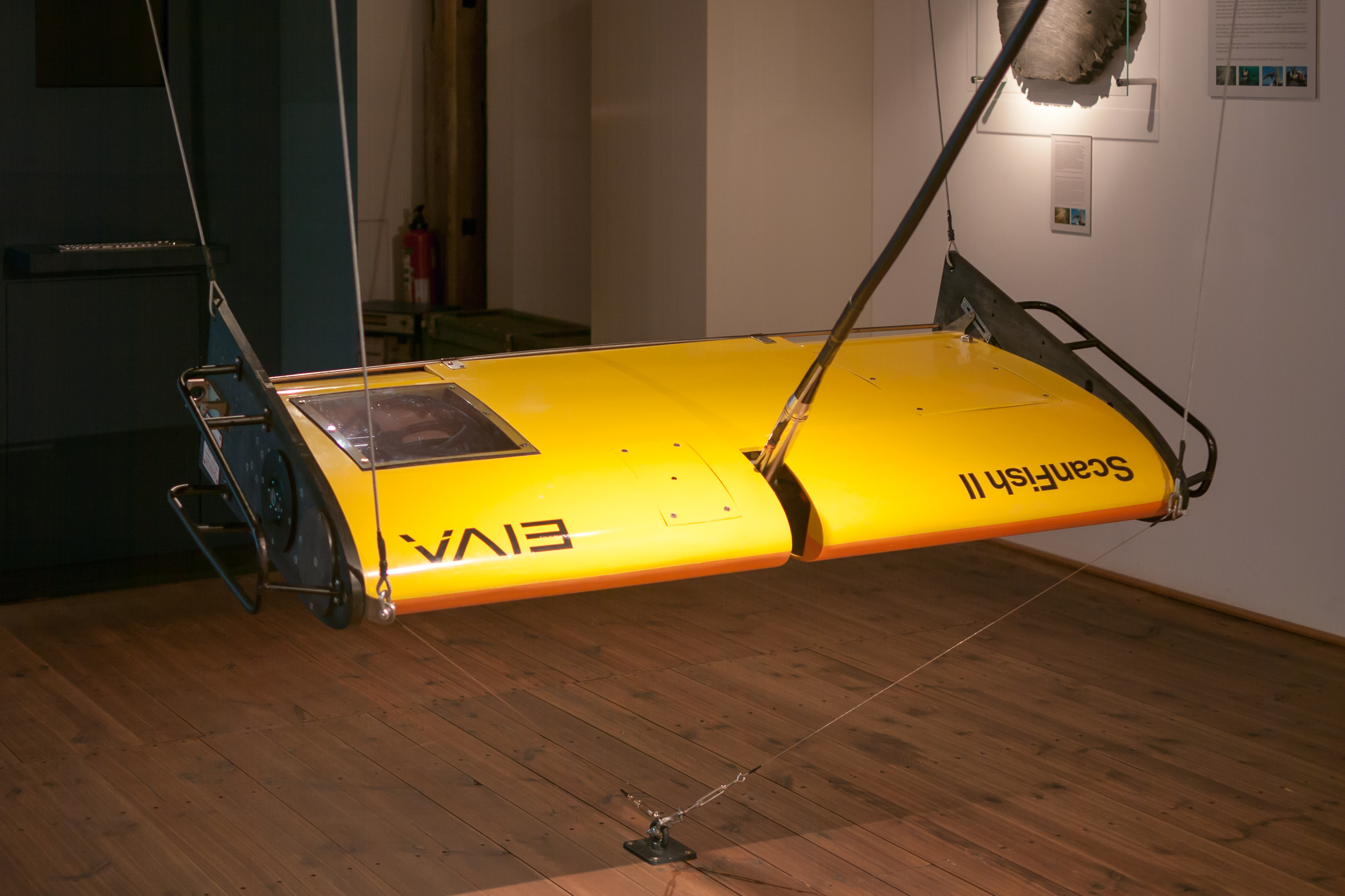 Remotely operated towed vehicle in the Internationales Maritimes Museum Hamburg